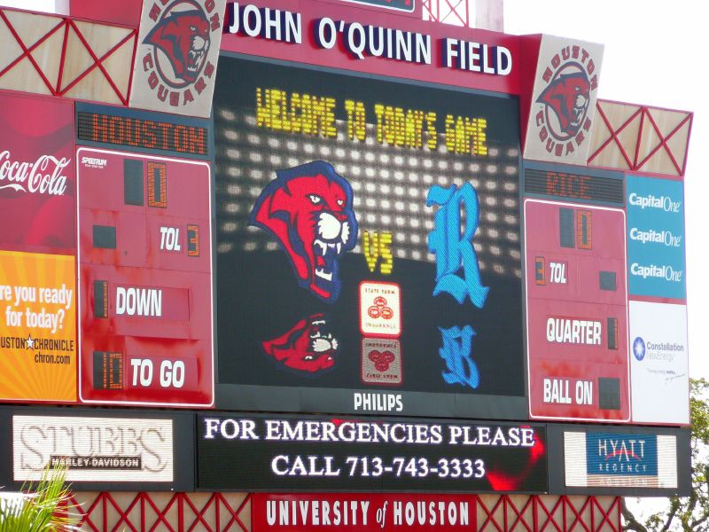 This is Robertson Stadium's scoreboard before the 2007 Bayou Bucket game (Rice vs UH rivalry).